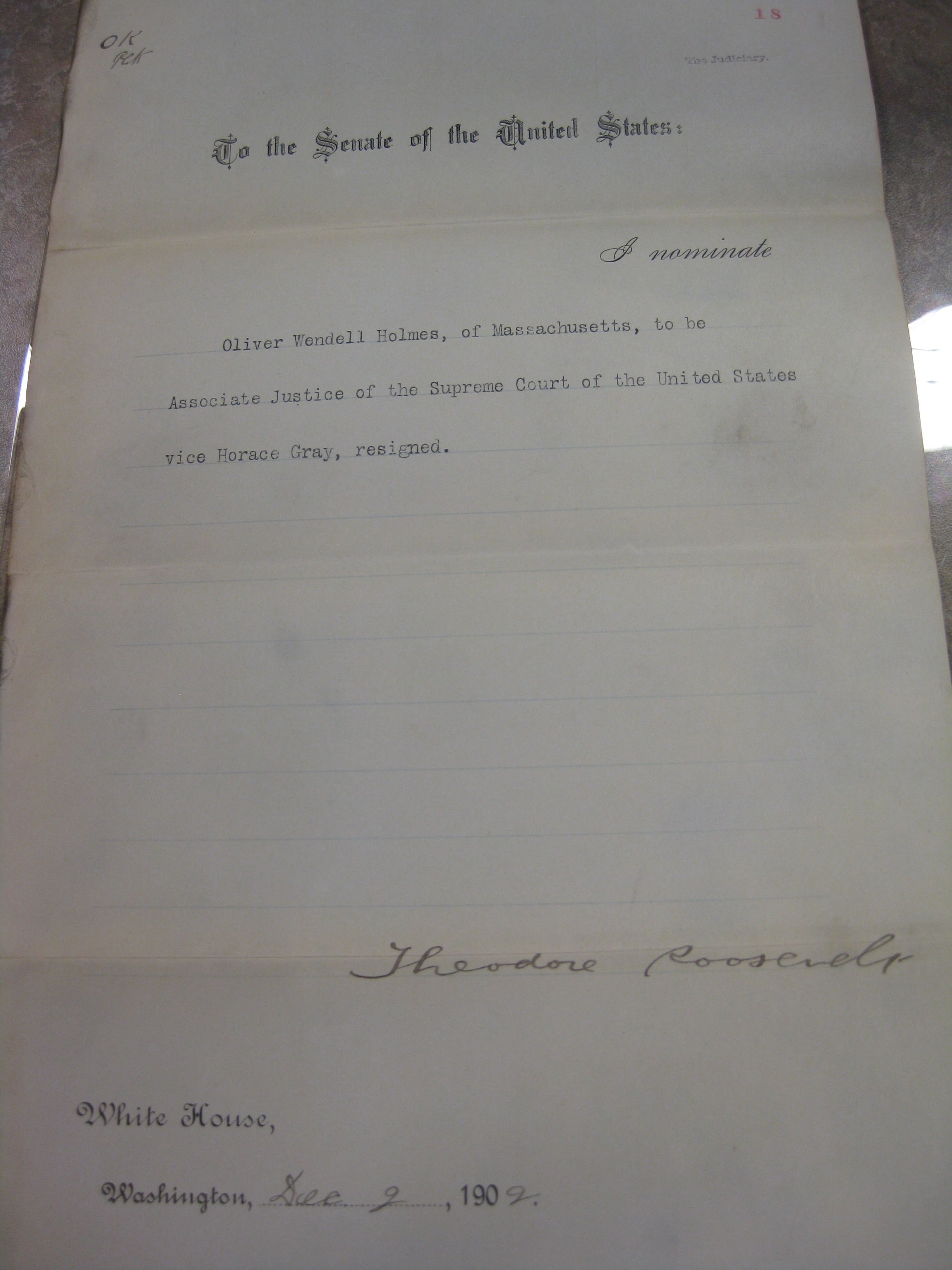 Theodore Roosevelt's nomination of Oliver Wendell Holmes, Jr. to serve on the U.S. Supreme Court. Courtesy of the National Archives and Records Administration.